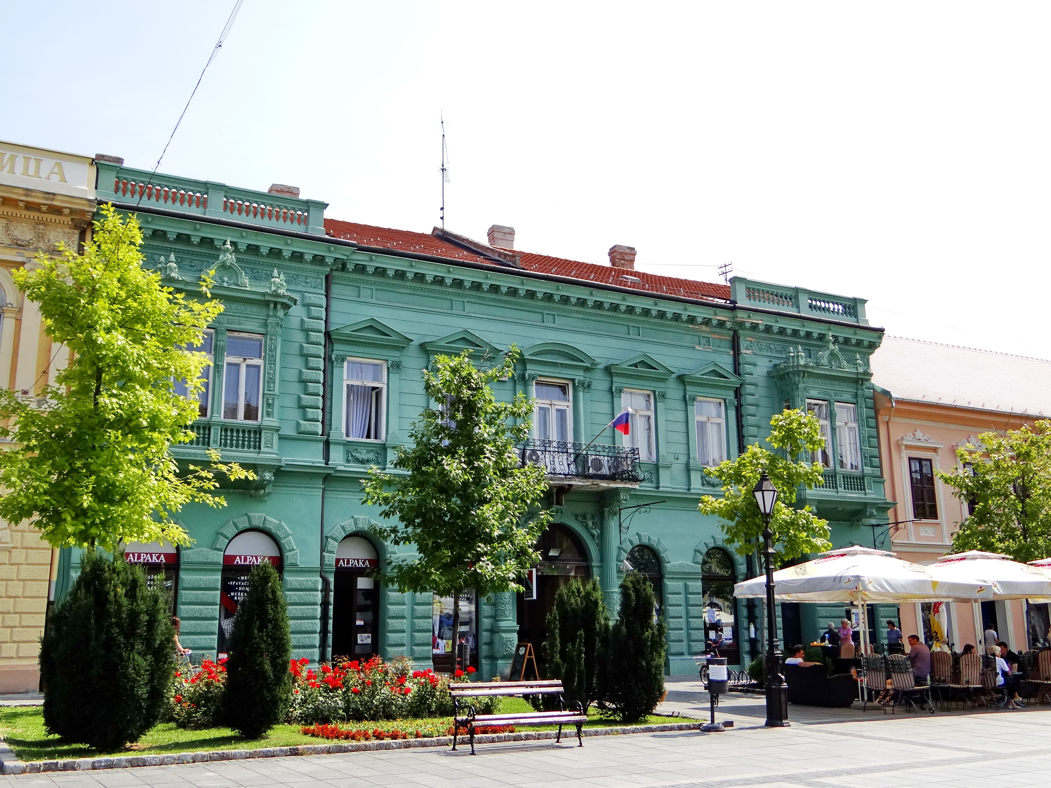 Sombor